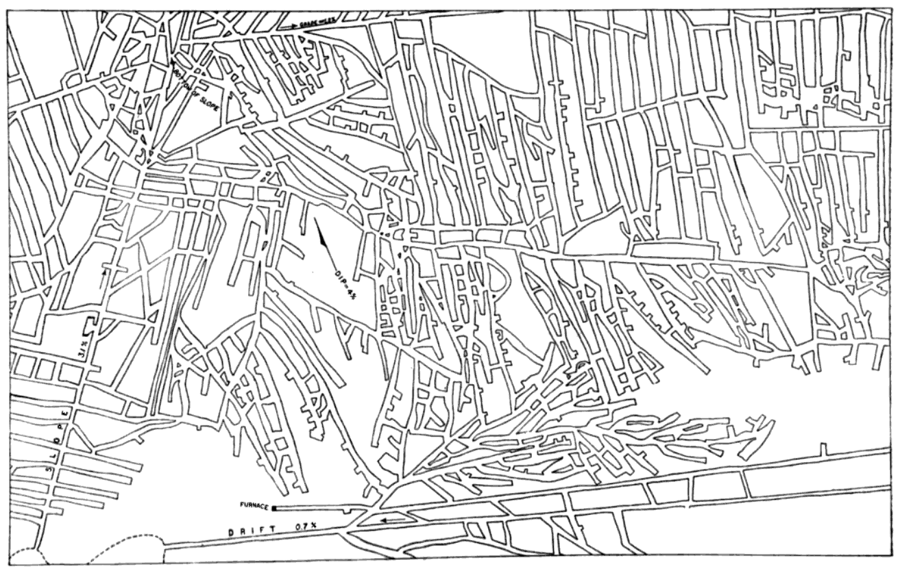 Origional caption: "Fig. 25. Method of Working the Georges Creek Big Vein, 1850." This illustrates room and pillar mining in its primitive form. There is no obvious ventilation planning, and both pillar sizes and heading orientation appear random. The notation "furnace" probably refers to a ventilation shaft where a fire was maintained to improve air circulation.